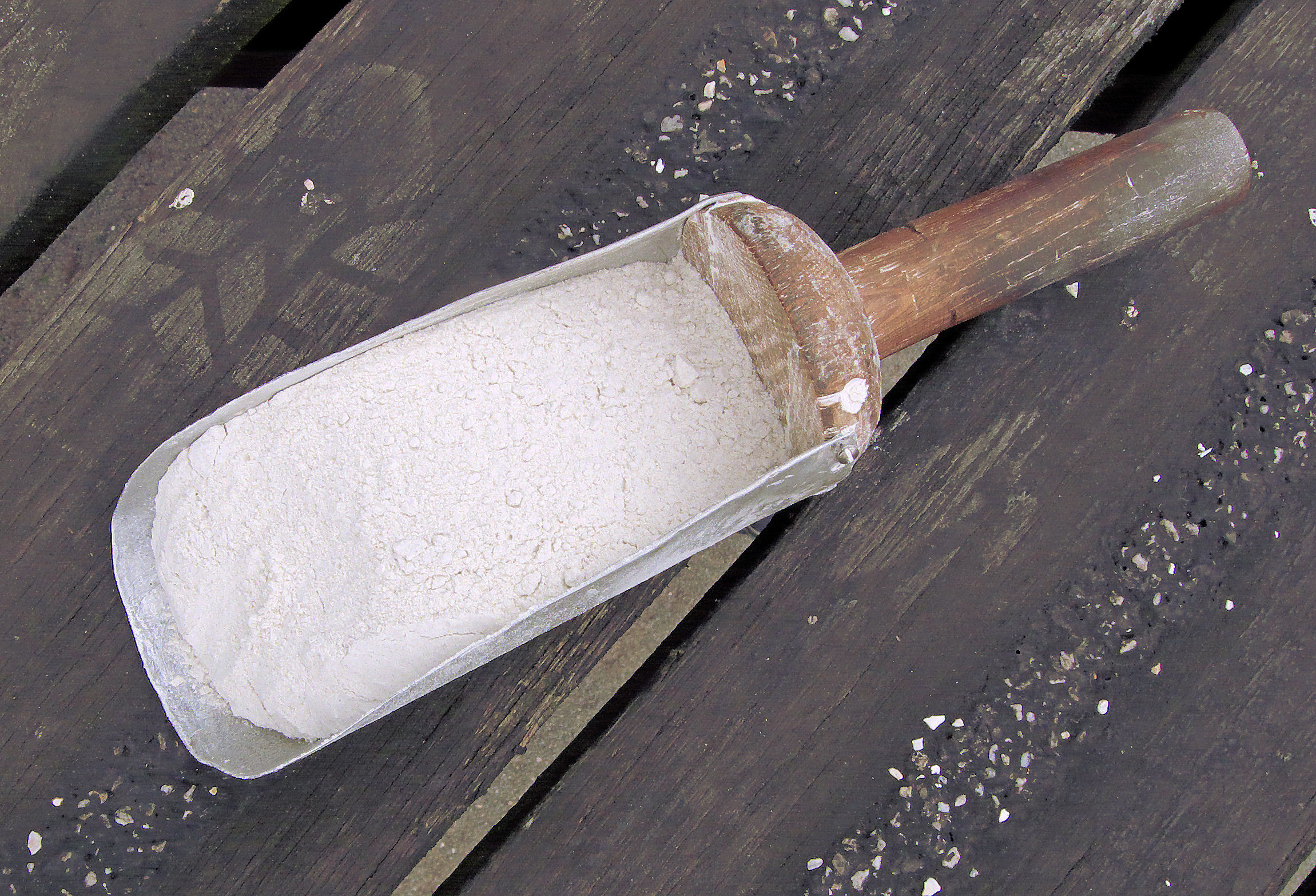 Buckwheat flour